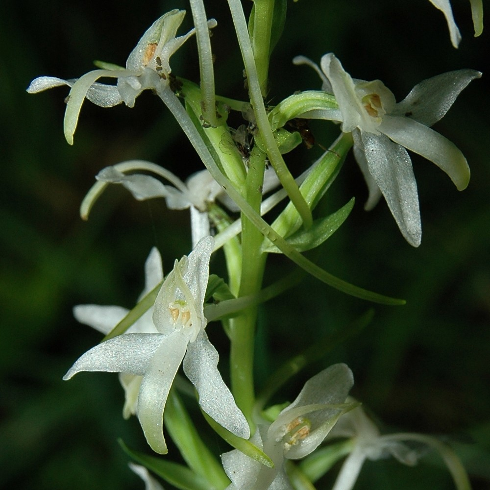 Platanthera bifolia